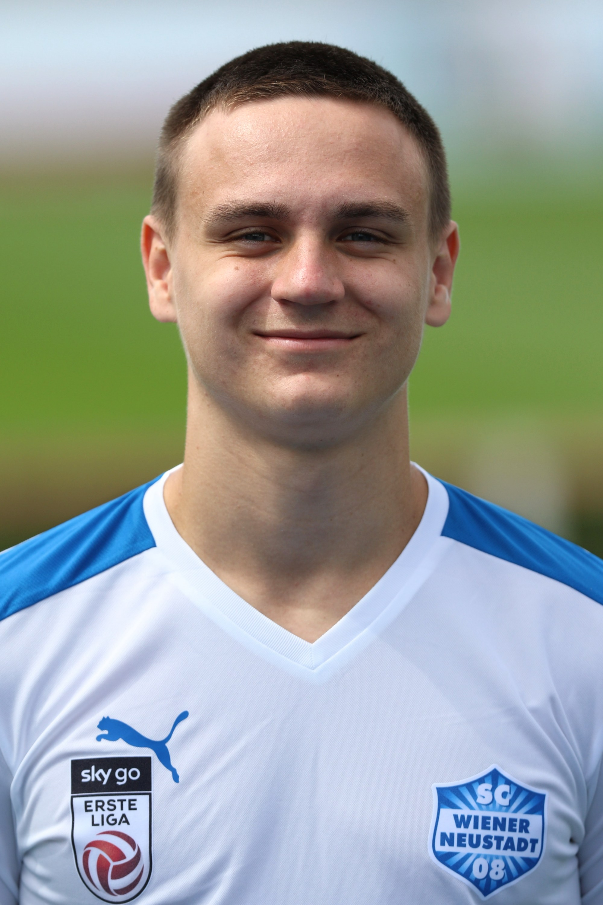 SC Wiener Neustadt squad presentation summer 2017. – The photo shows Lukas Fridrikas.